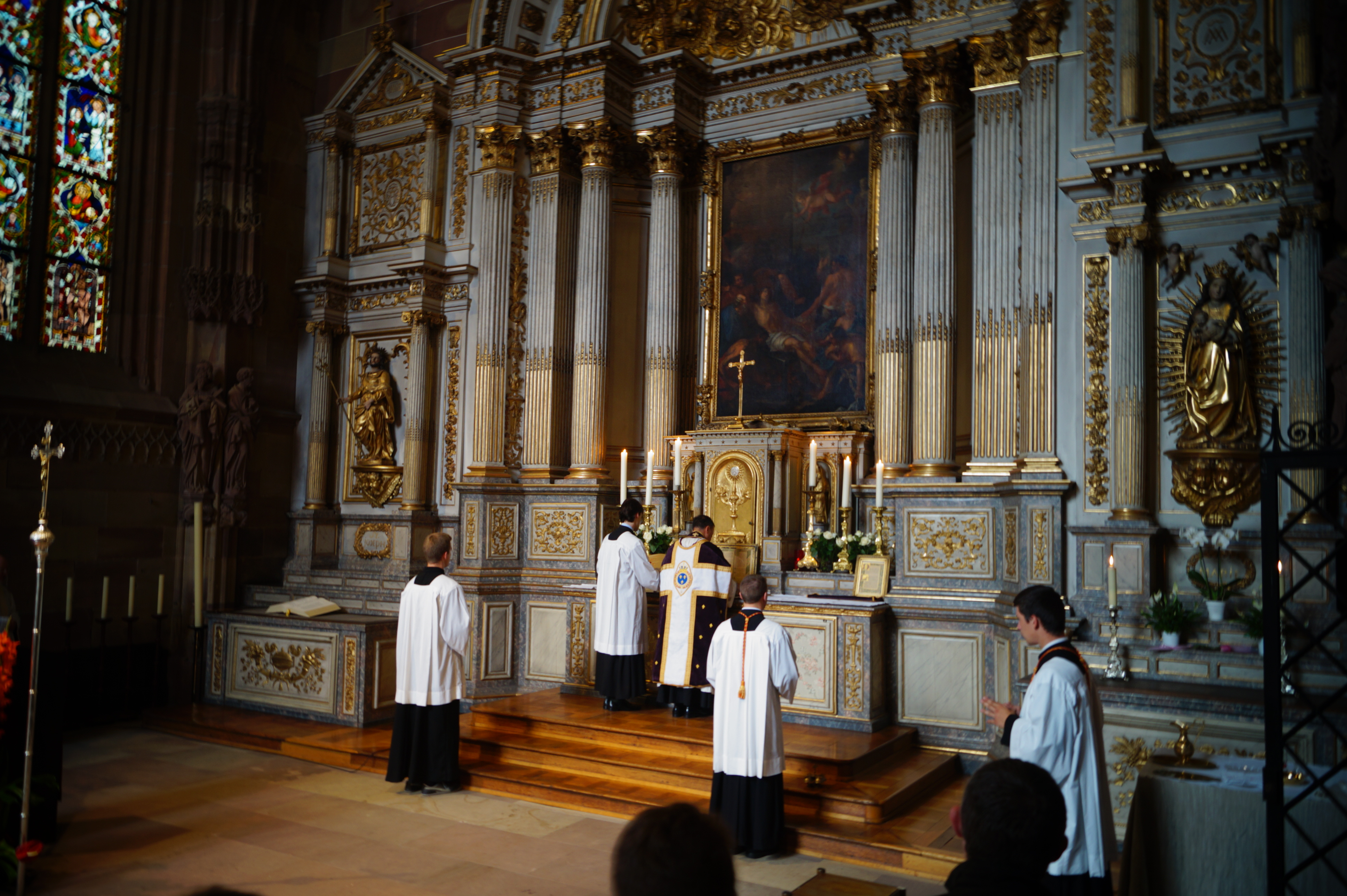 Tridentinel High Mass at Saint-Laurent Chapel, in the Strasbourg Cathedral Notre Dame, for Sainte Jeanne d'Arc.